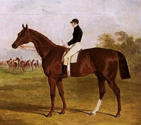 Mundig, winner of 1835 Epsom Derby. Painting by John Frederick Herring Sr. Artist dead for over 100 years.